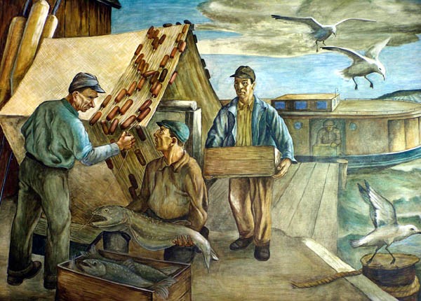 detail